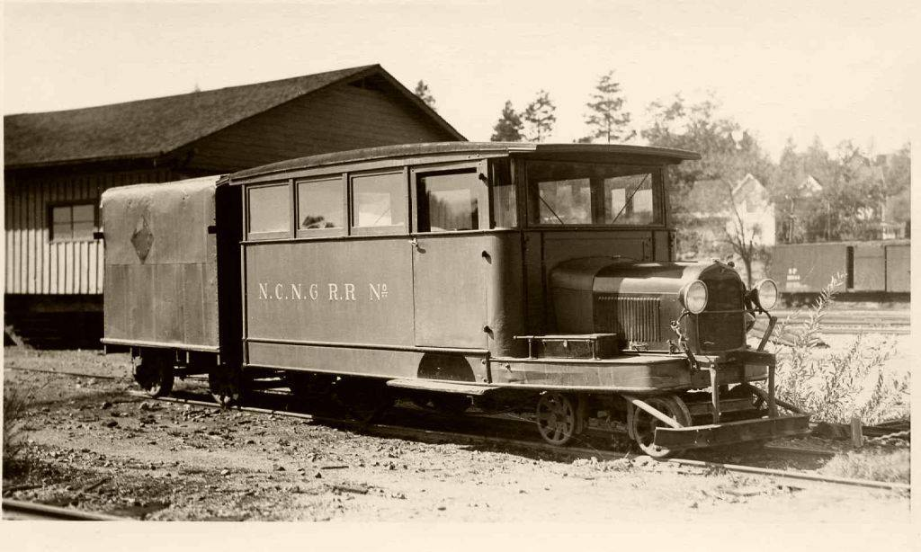 Nevada County Narrow Gauge Railroad